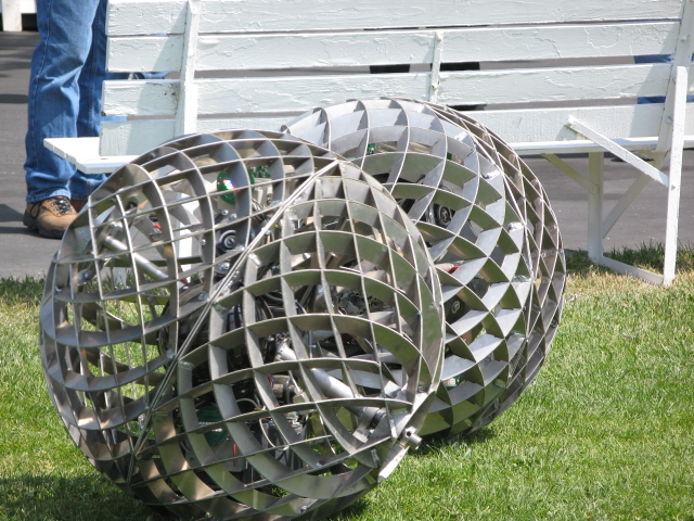 Two orbs from the Orb Swarm robotic art project, photographed by Peter Kaminsky